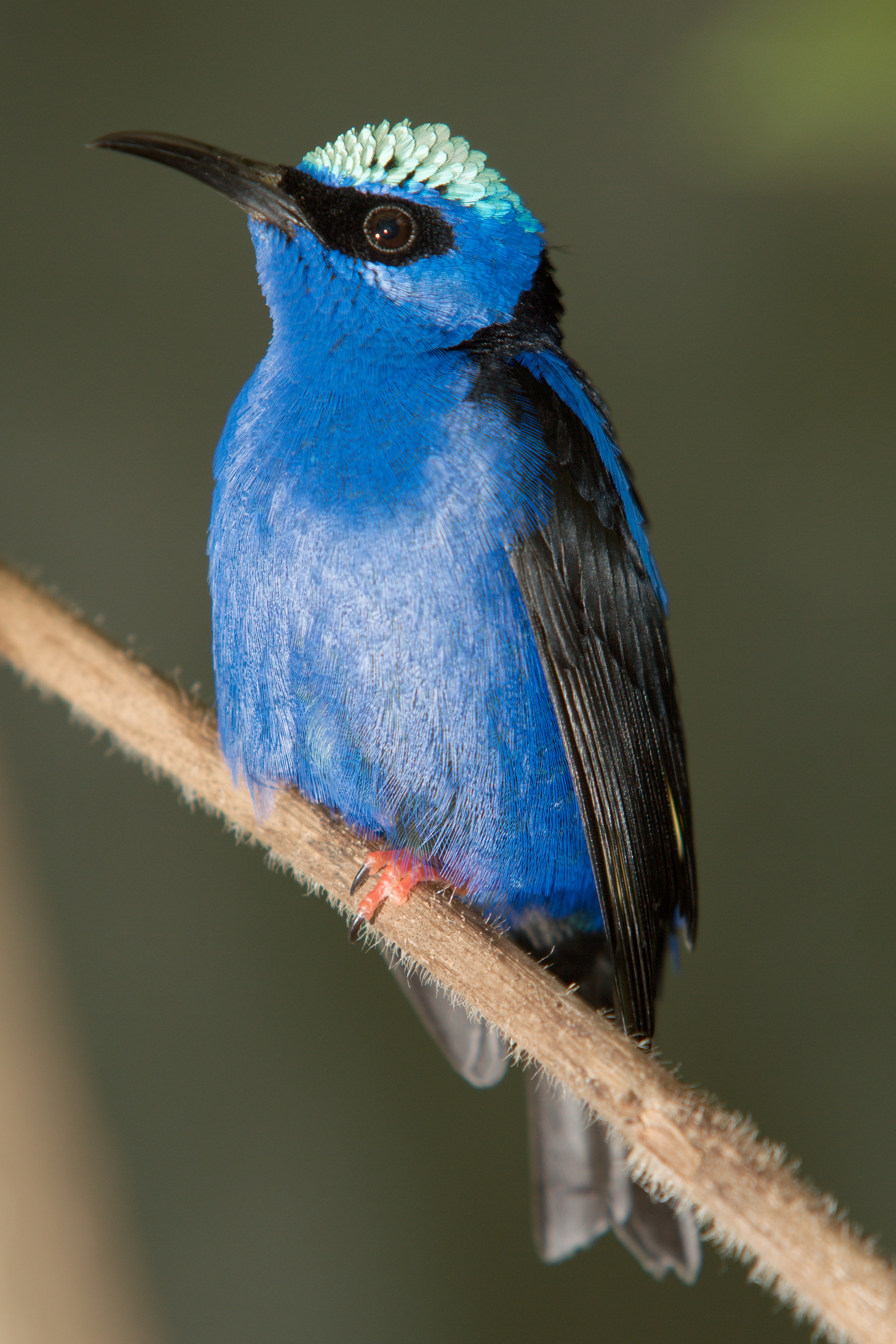 A male Red-legged Honeycreeper at Diergaarde Blijdorp, Netherlands.